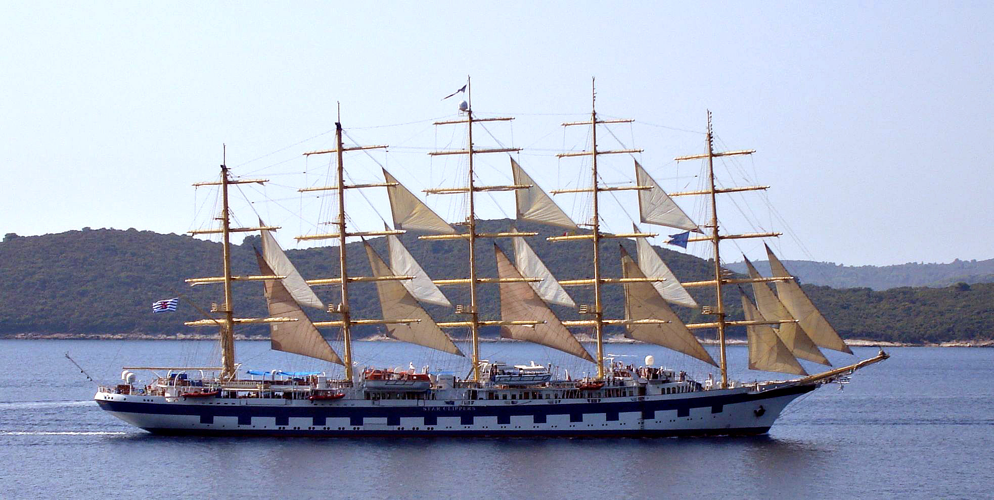 SV Royal Clipper in Croatia